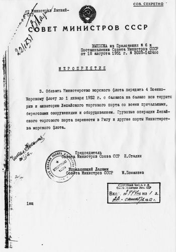 Top secret USSR document about creating closed military port in Liepaja. Signed by Stalin.